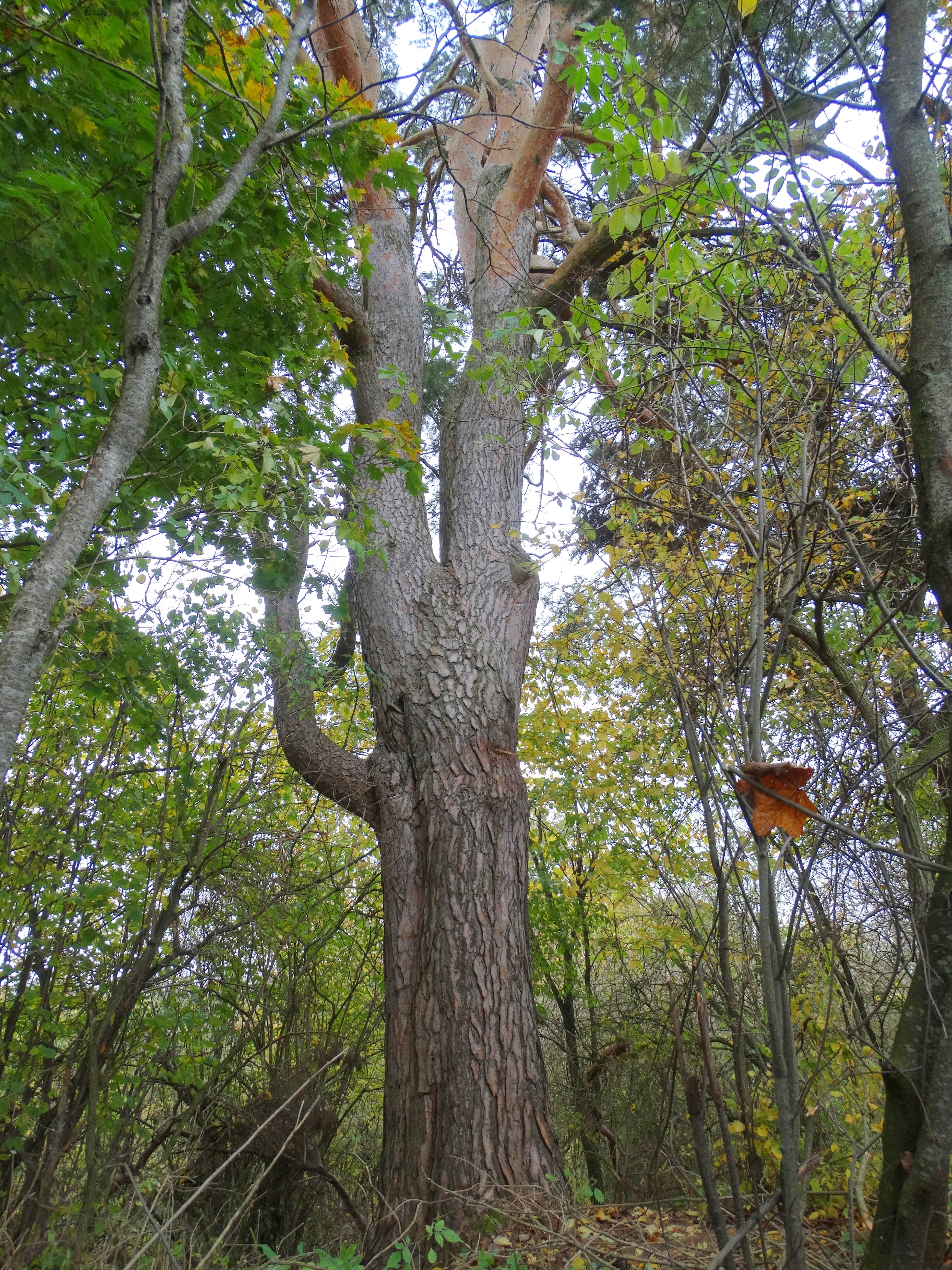 Pine tree, Graužėnai, Jurbarkas District, Lithuania